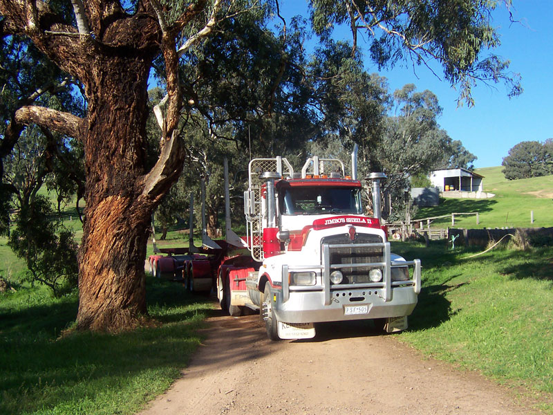 Truck used for transporting logs